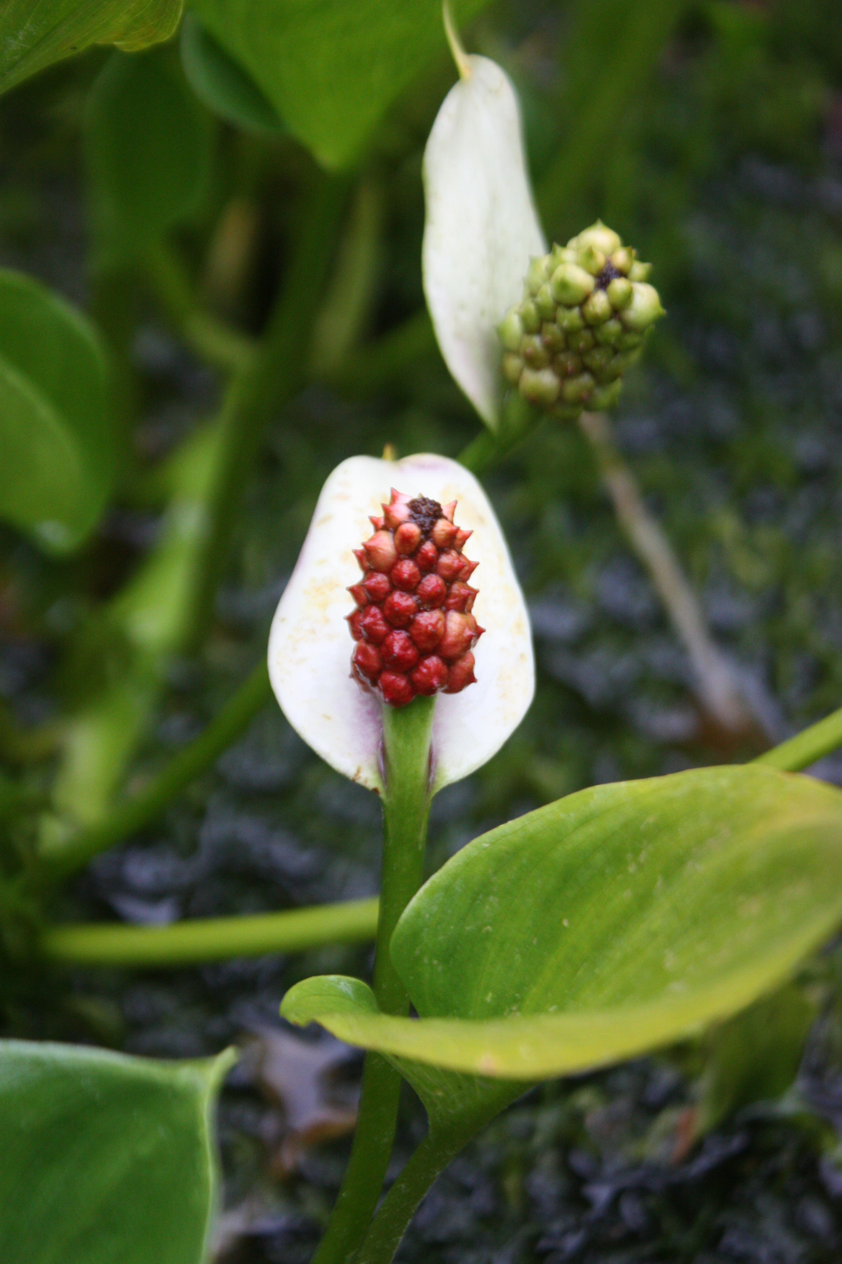 Bog Arum,Calla palustris, Poland, Gać (gmina Główczyce) near forest road to Zarnowska village, Słowiński Park Narodowy.